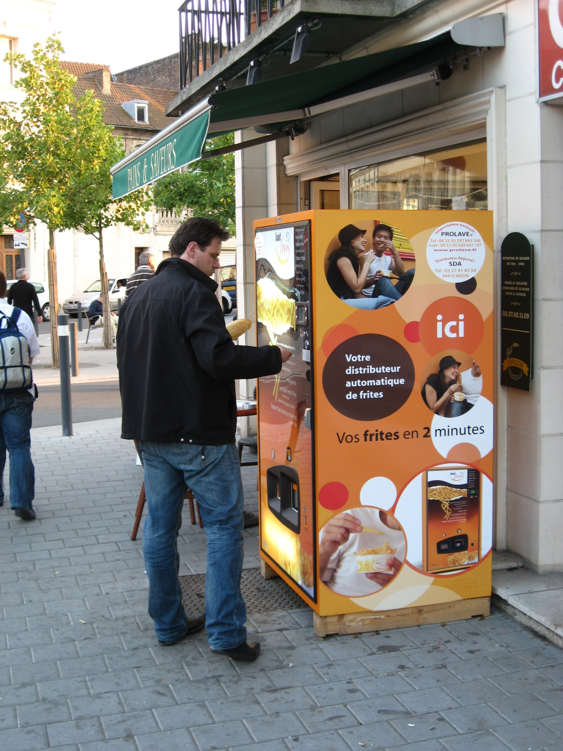 French fried vending machine in Valenciennes